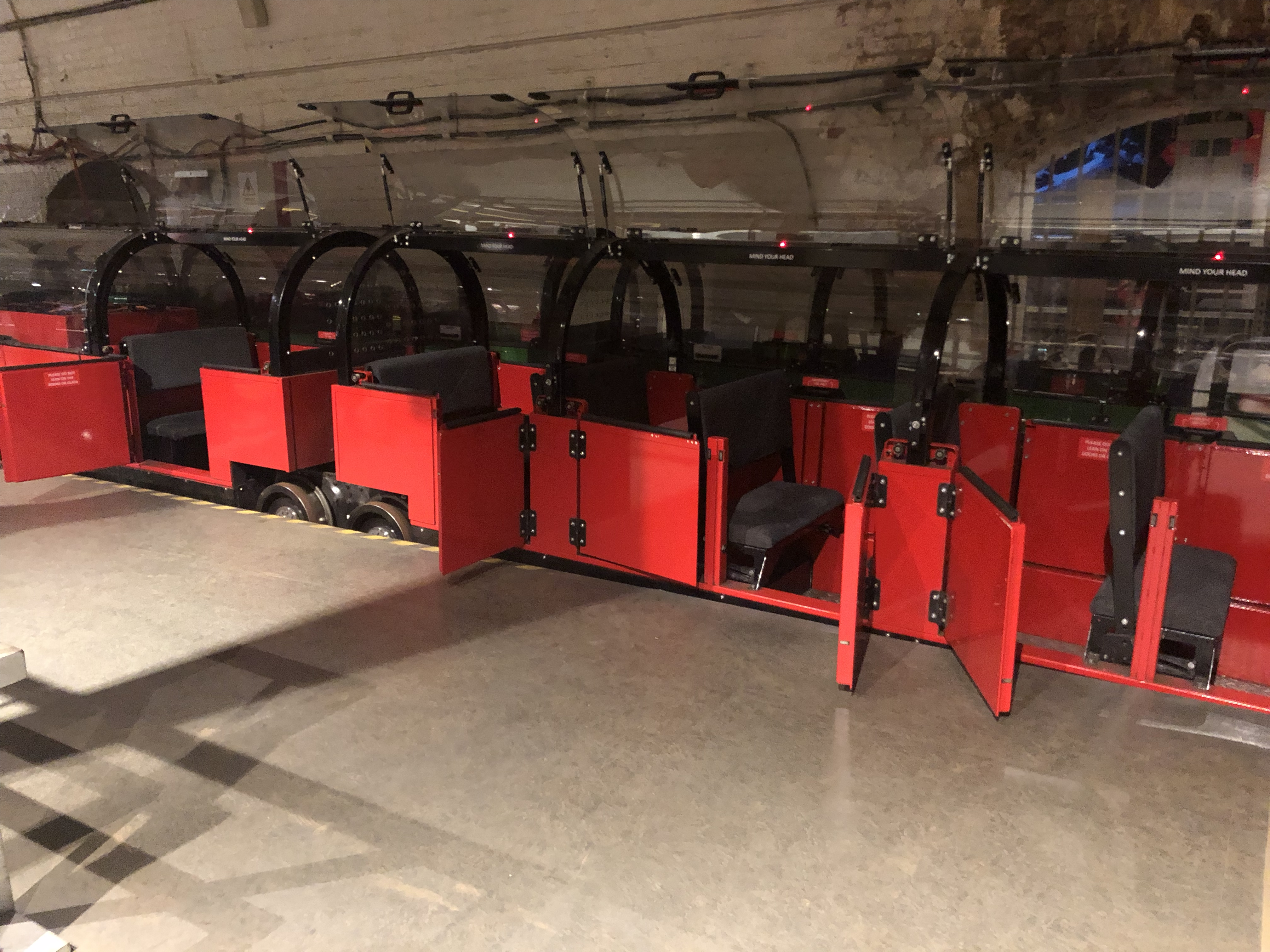 All Aboard the Mail Rail